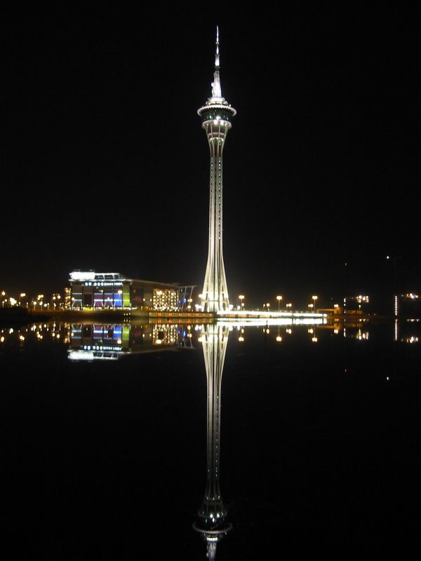 I took this photo of the Macau Tower which had a perfect reflection in the lake in the foreground